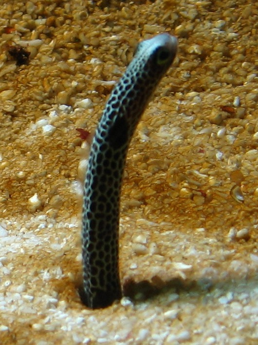 Heteroconger hassi in Nausicaä Centre National de la Mer